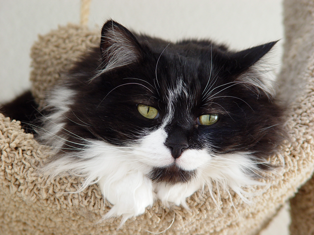 Domestic longhair tuxedo cat (Felis silvestris catus)